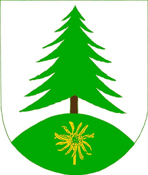 Municipal coat of arms of Kubova Huť village, Prachatice District, Czech Republic.